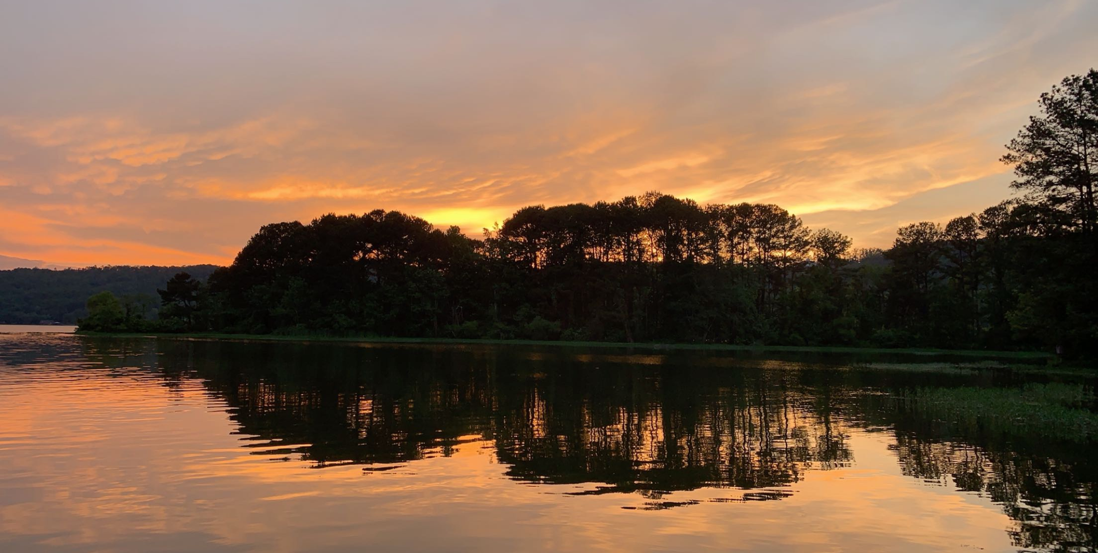 A photo of the sun setting over an island in the Coosa River located in Southside, Alabama.